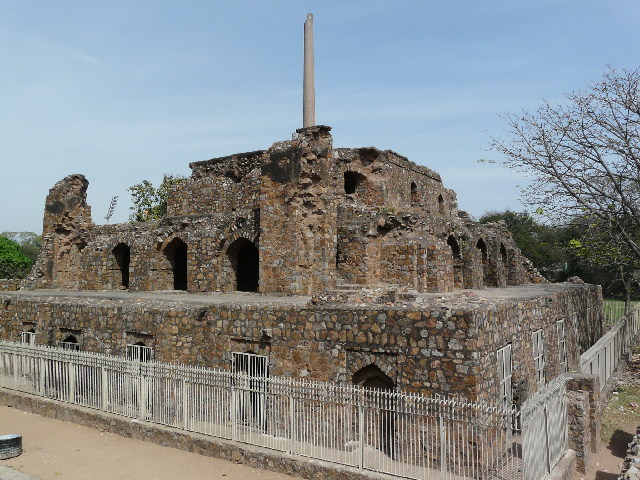 Ashokan pillar buildin